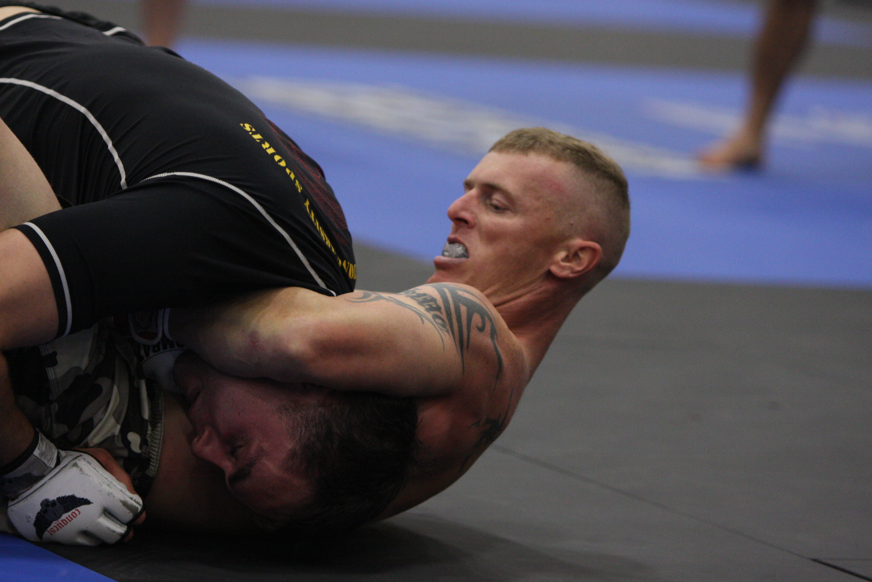 Light heavyweight Fight Club 29 member Allen McBroom applies a guillotine choke to his rival from the Marine Corps Base Camp Pendleton, Calif., team, during the Fight Expo pankration tournament at the Del Mar Fairgrounds in Del Mar, Calif., March 21.